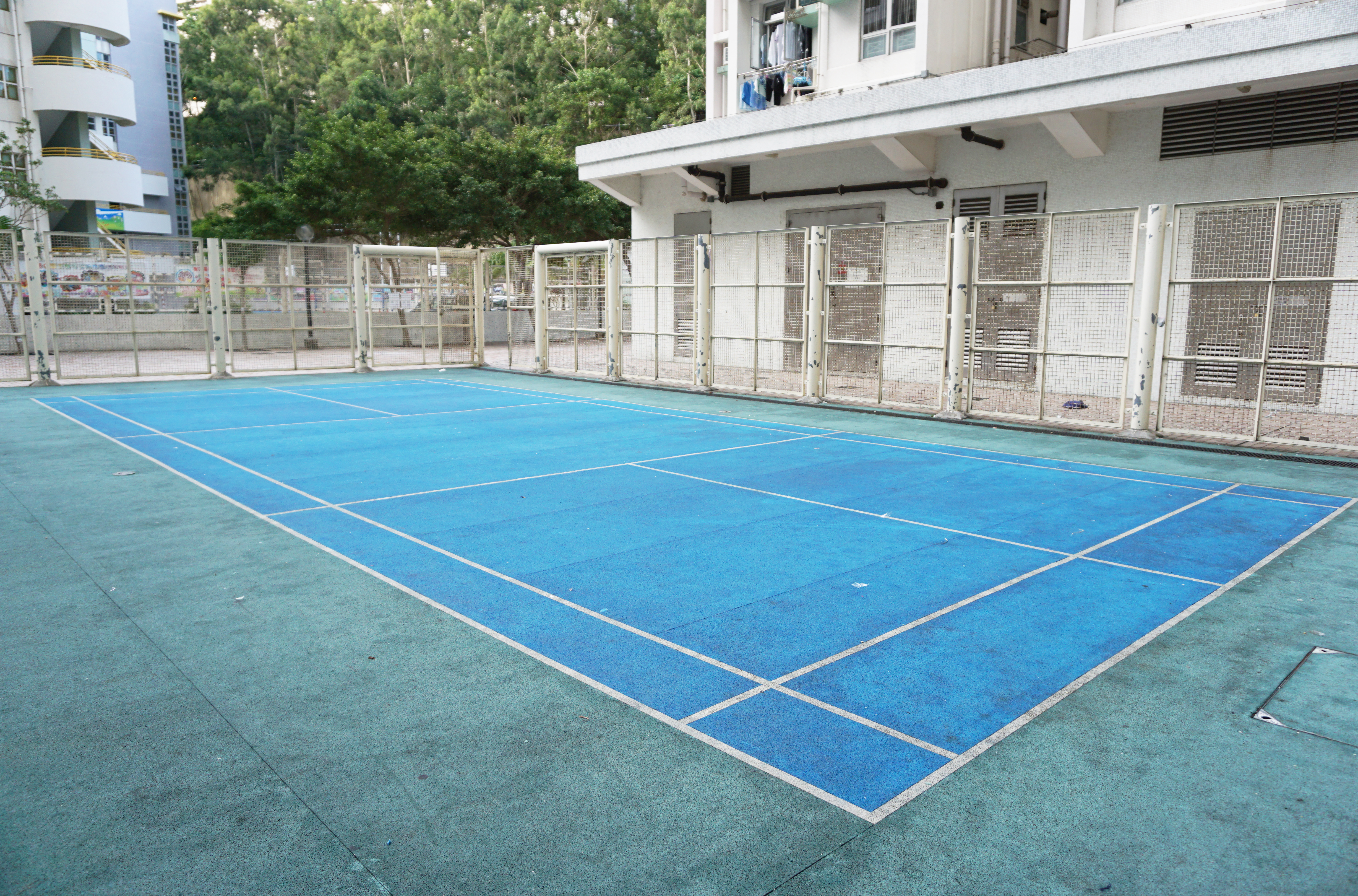 Shek Pai Wan Estate in Aberdeen, Hong Kong.